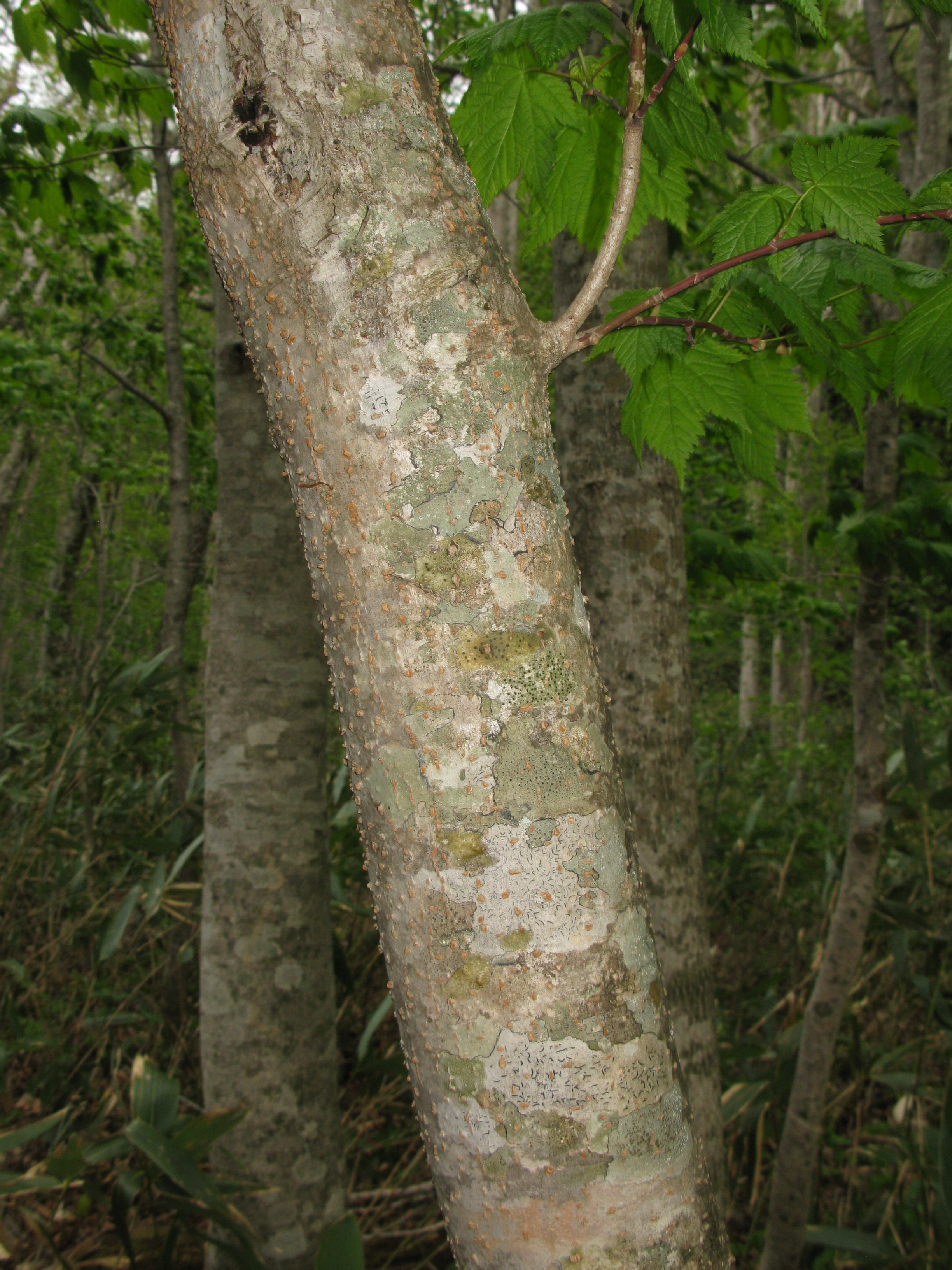 Acer argutum, Aizu area, Fukushima pref., Japan